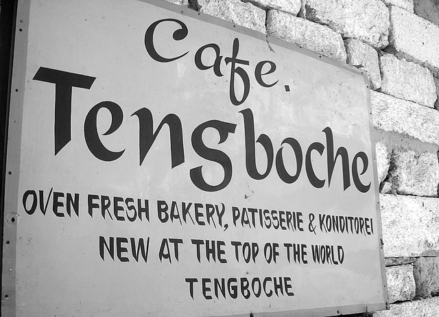 Cafe Tengboche, Nepal